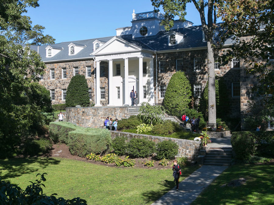 Hackett Hall on the Riverdale Country School campus, October 2016, Photo courtesy of Riverdale Country School